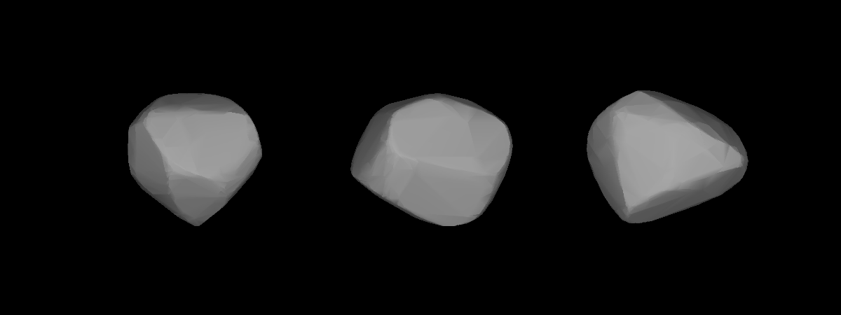 A three-dimensional model of 336 Lacadiera that was computed using light curve inversion techniques.